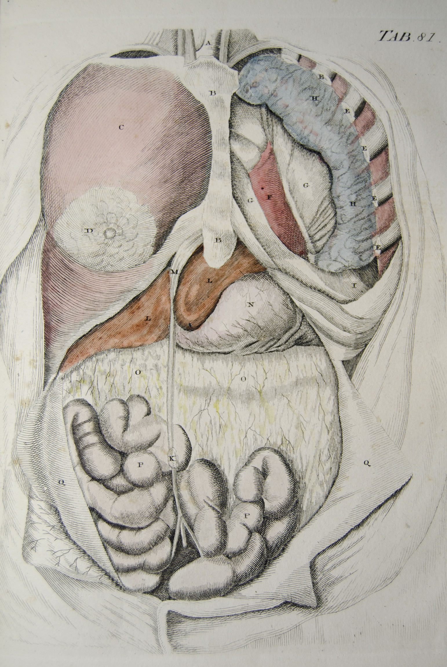 Plate 81 showing the contents of the thorax and abdomen from Andrew Fyfe, A System of the Anatomy of the Human Body, second edn, vol.1 (1805). Dedicated "to the gentleman attending medical classes at the University of Edinburgh". Plate identified in the index as being from a work by Charles Nichols Jenty. Andrew Fyfe (1752-1824) was a Scottish artist and anatomist, who held the post of disssector at the University of Edinburgh for 40 years. His textbooks, lavishly illustrated with copperplate engravings made from his own drawings (both copies from other worksand from life), were designed for students, and appeared in many editions, successively enlarged and improved. the text is as dry and factual as his lectures were reputed to be. Later editions included comparative anatomy, using the work of Cuvier. Part of the Anatomical Atlase collection: SPEC P8.24/oversize in Special Collections and Archives, the University of Liverpool Library. Images from Special Collections & Archives, the University of Liverpool. Template:University of Liverpool Faculty of Health & Life Sciences